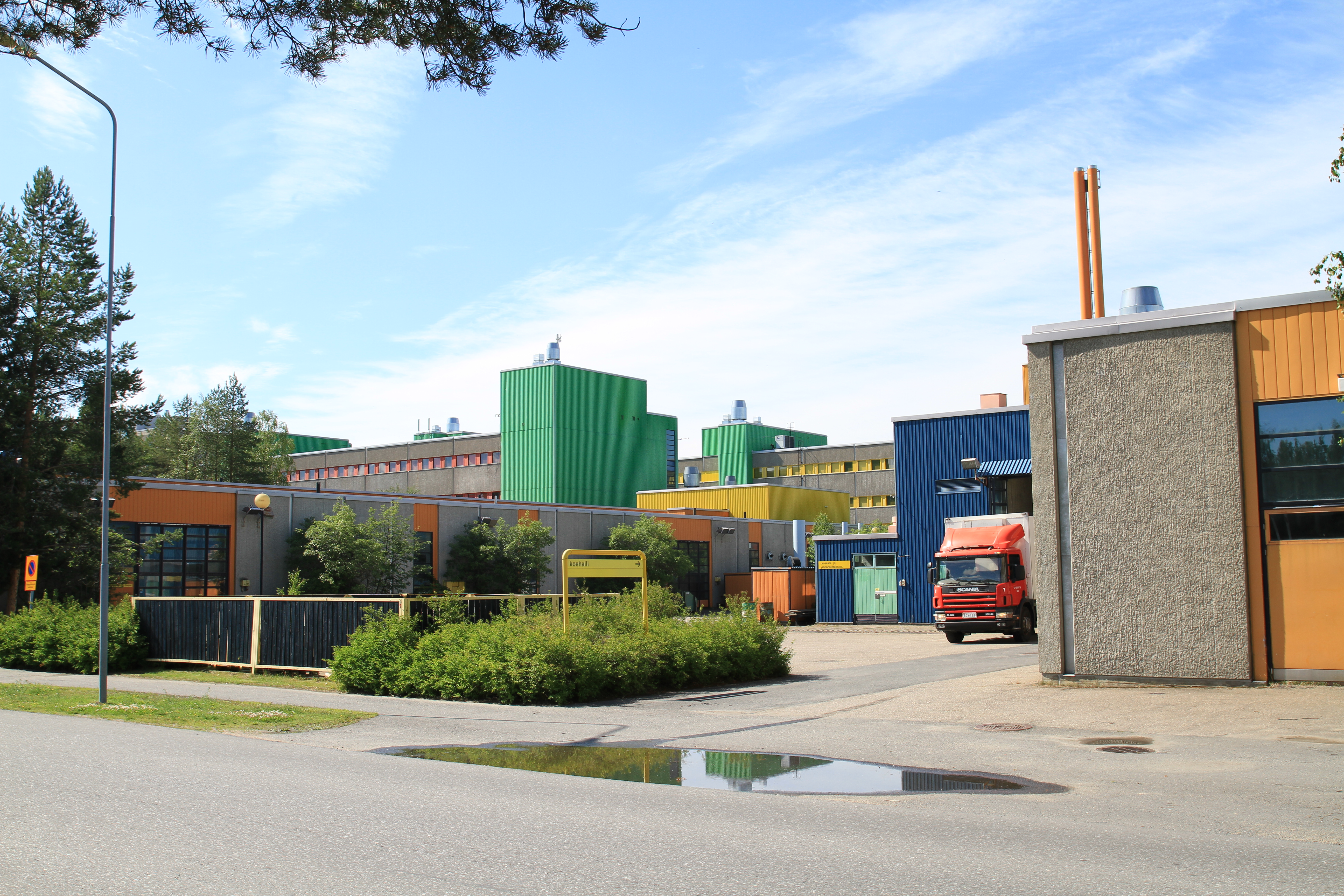 University of Oulu year 2010